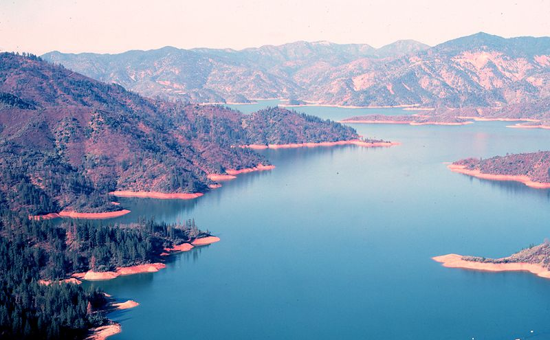 Shasta Reservoir/Lake/Whatever in northern California (Renamed from original to prevent conflict with another pic on enwiki)